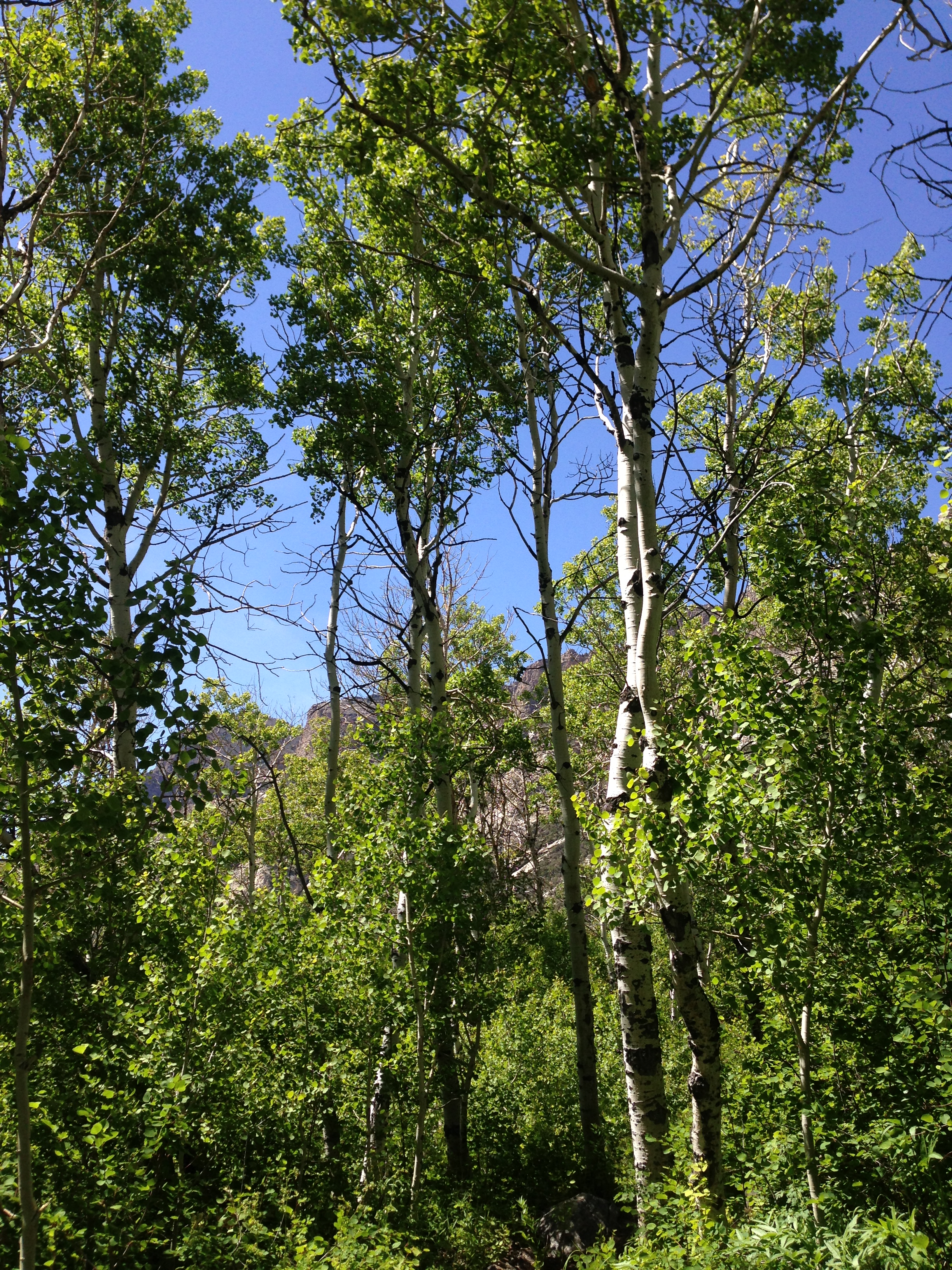 Aspens along the Changing Canyon Nature Trail in Lamoille Canyon, Nevada